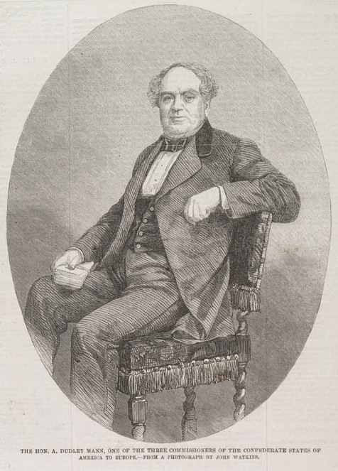 The Illustrated London News, vol. 38, no. 1087, p. 414.